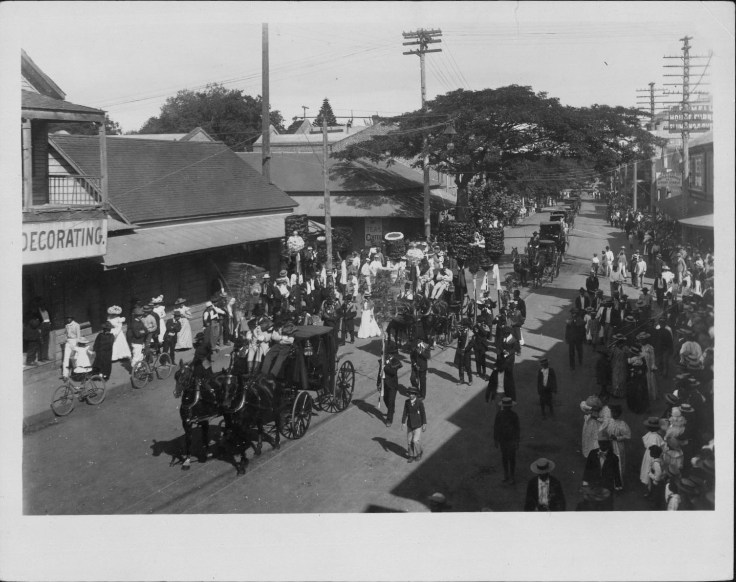 Funeral of Queen Kapiolani.